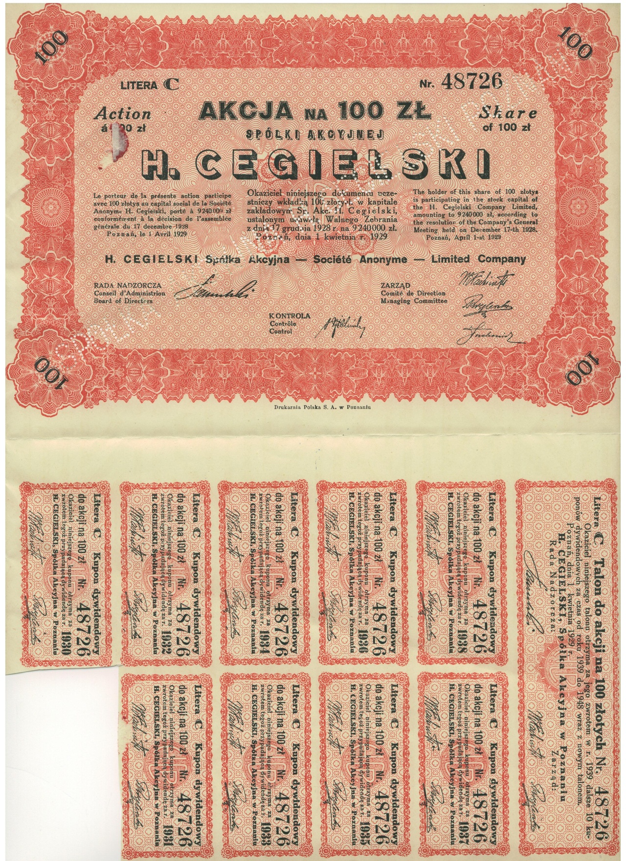 H. Cegielski Company Stock Certificate, 1928.